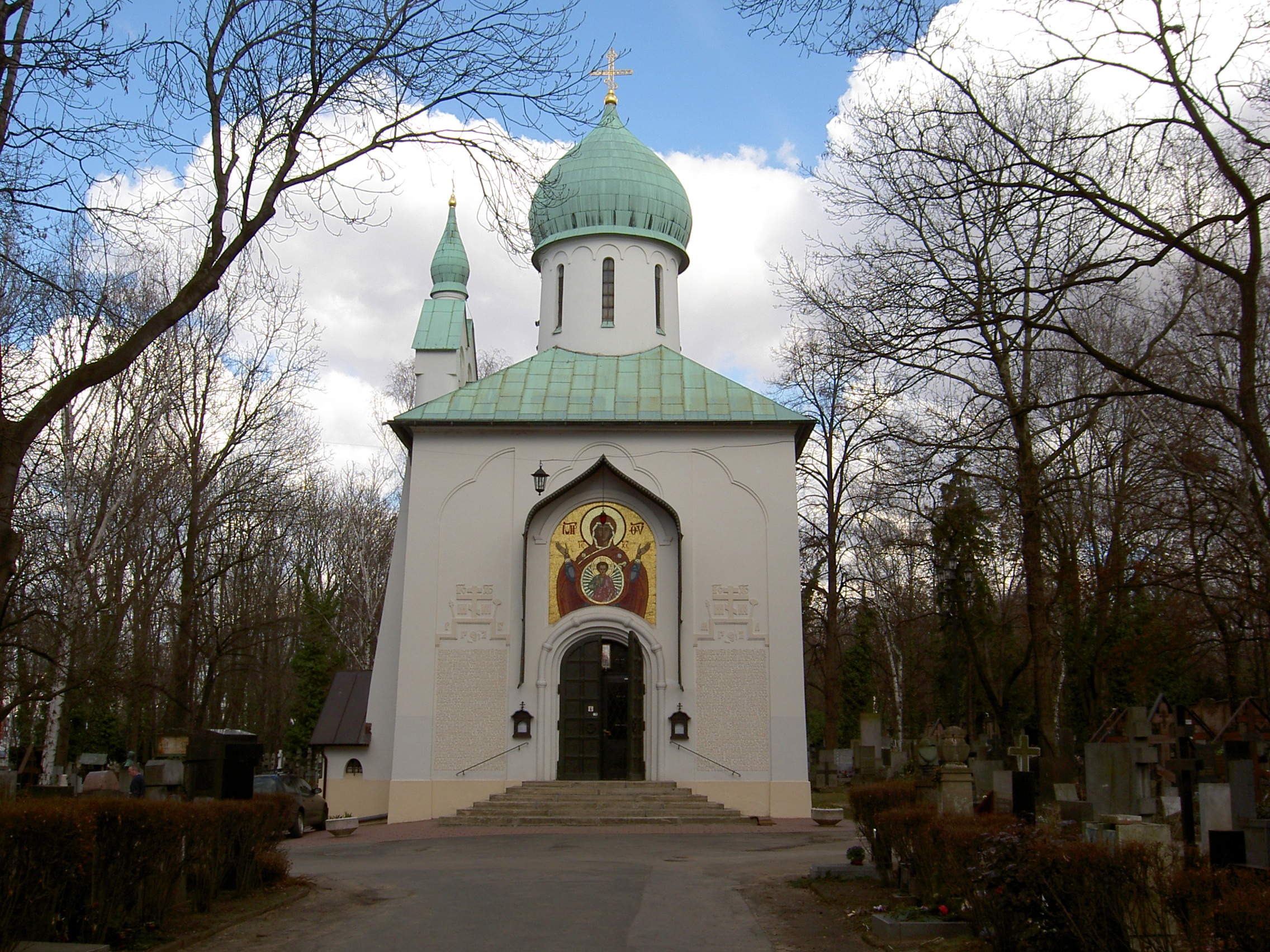 Orthodox church of the Dormition at Olšany Cemetery, Prague, Czech Republic